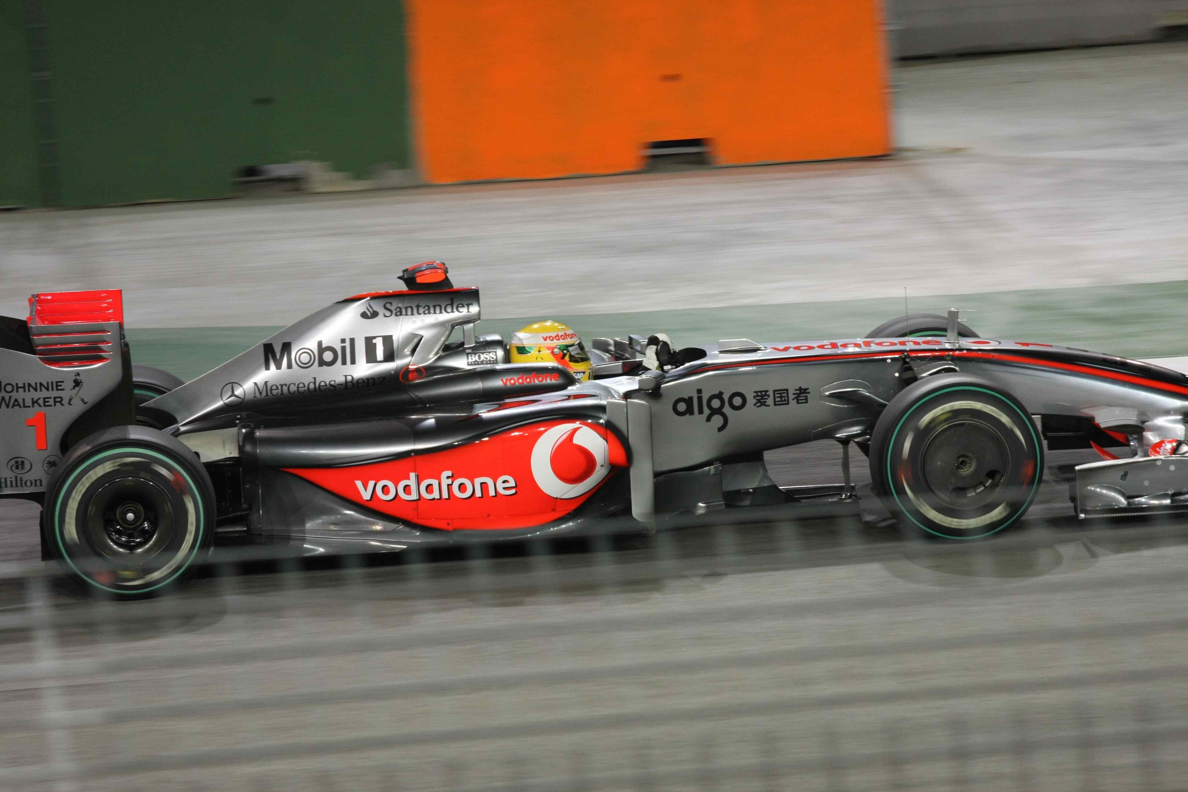 Lewis Hamilton driving for McLaren at the 2009 Singapore Grand Prix.